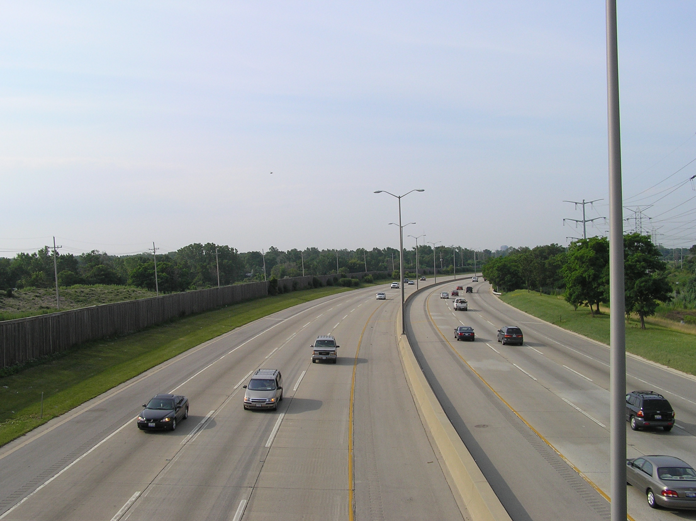 Looking southbound onto Interstate 355 from the Illinois Prairie Path.